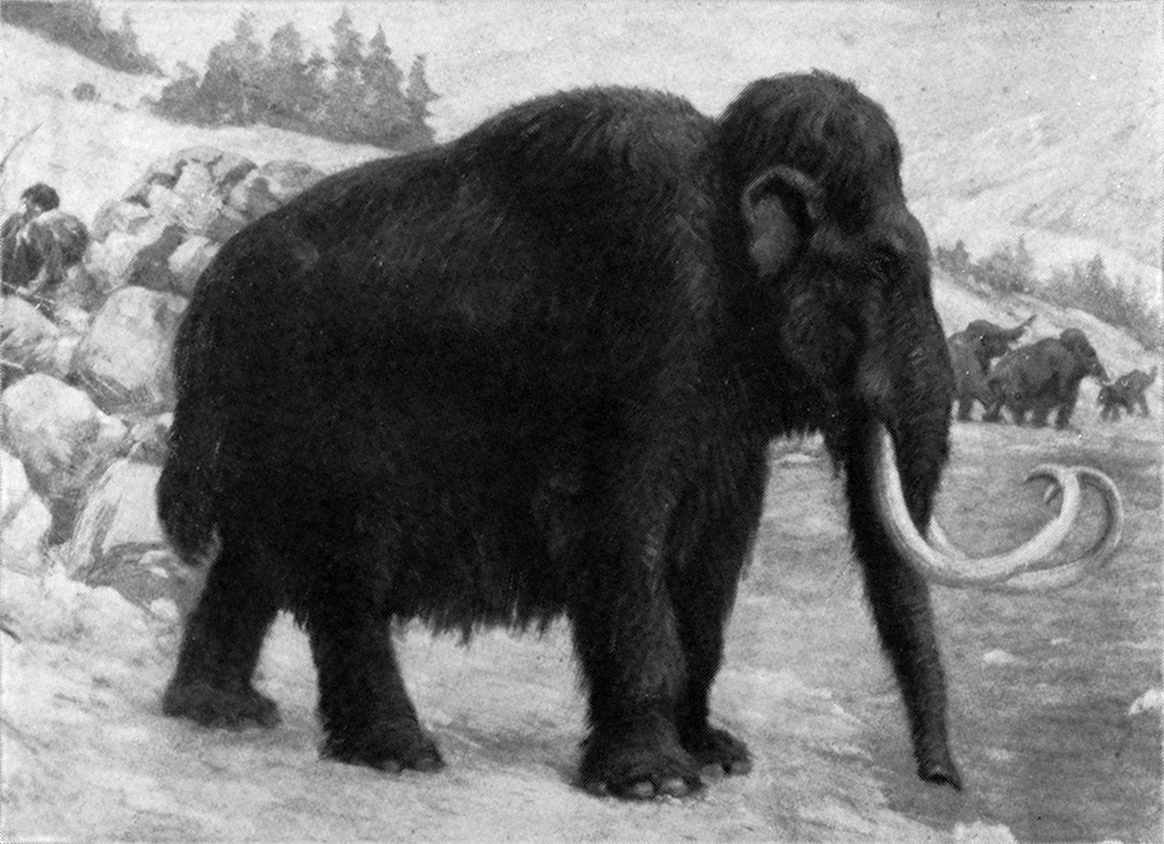 Woolly mammoths.